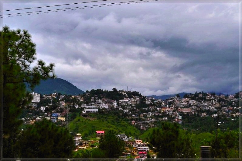 Solan city